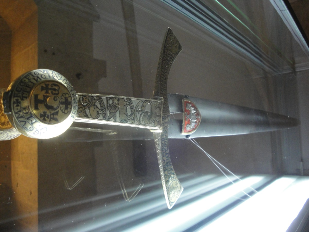 The Szczerbiec (Polish coronation sword; obverse) as displayed in the Wawe Castle